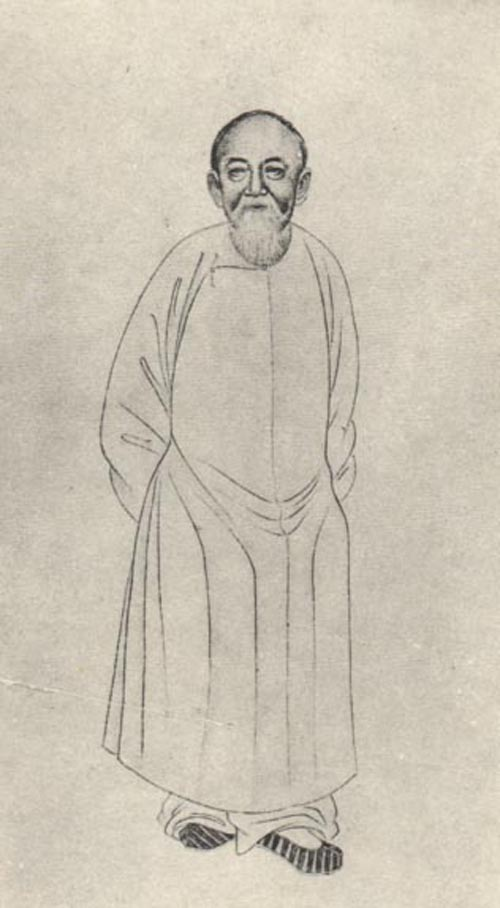 PI Xirui, scholar of the Qing Dynasty.